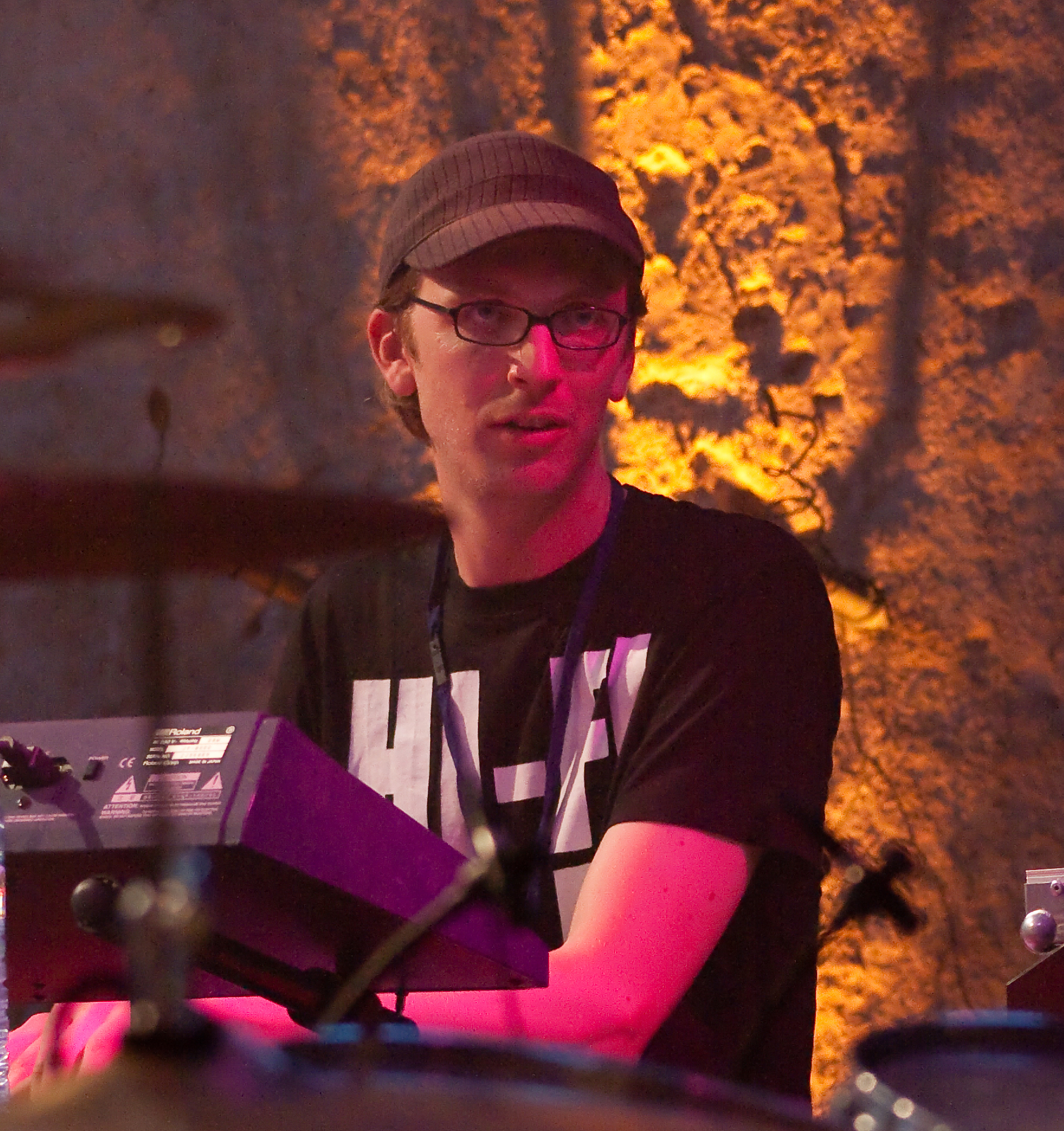 Michael Hornek playing keyboards on stage with Klaus Doldingers Quartett